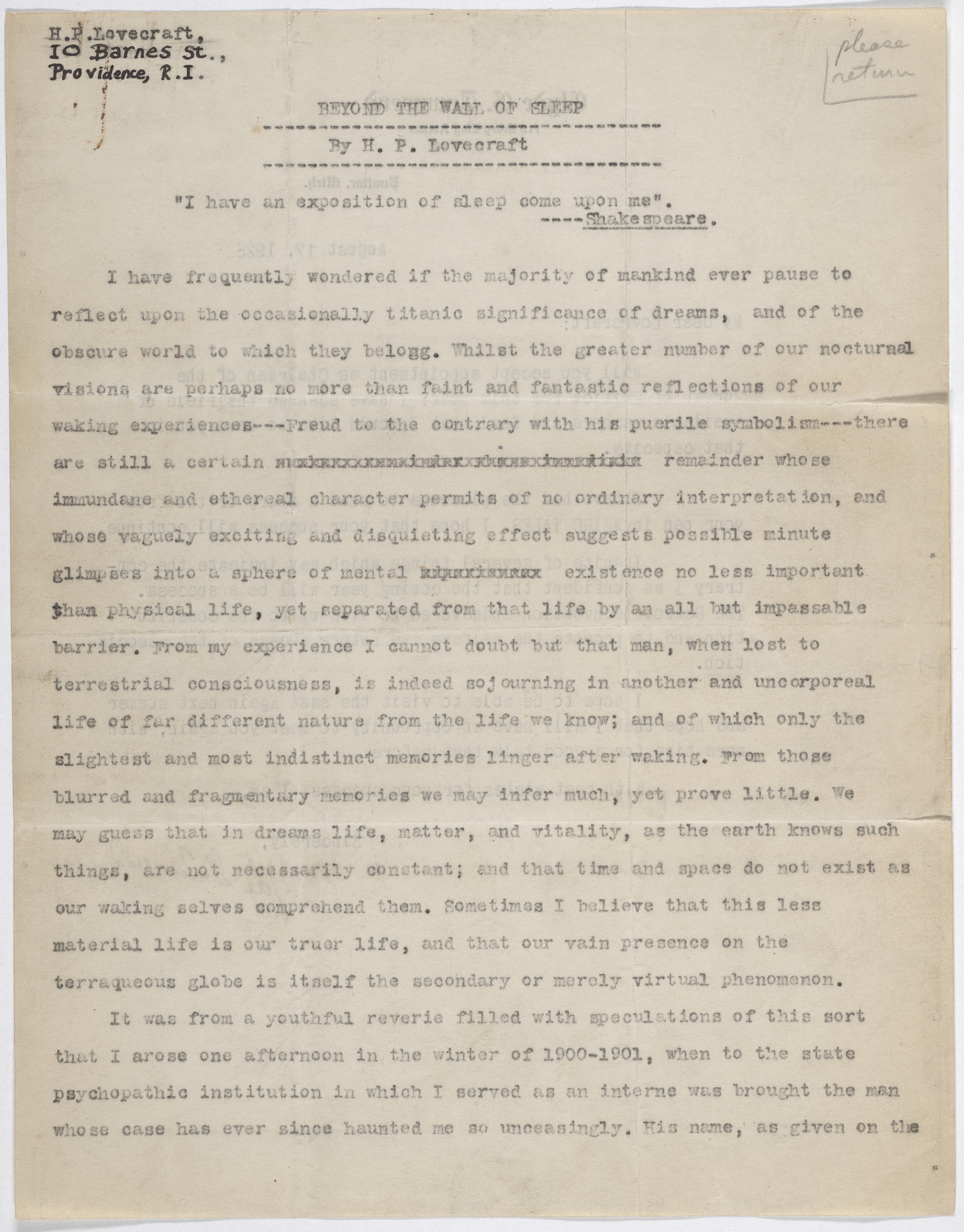 First page of the manuscript Beyond the Wall of Sleep